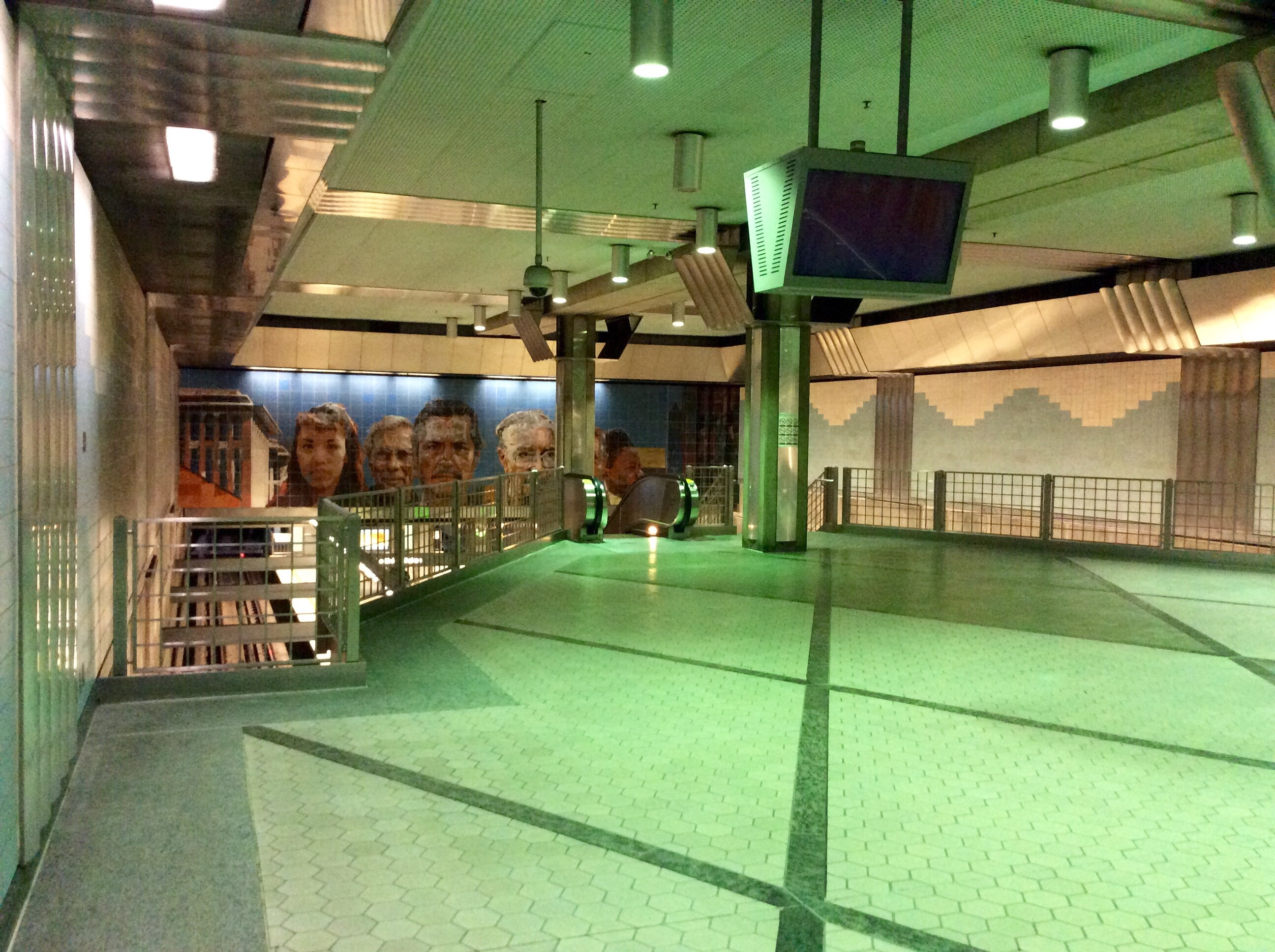 The upper floor view of Wilshire/Western Station.